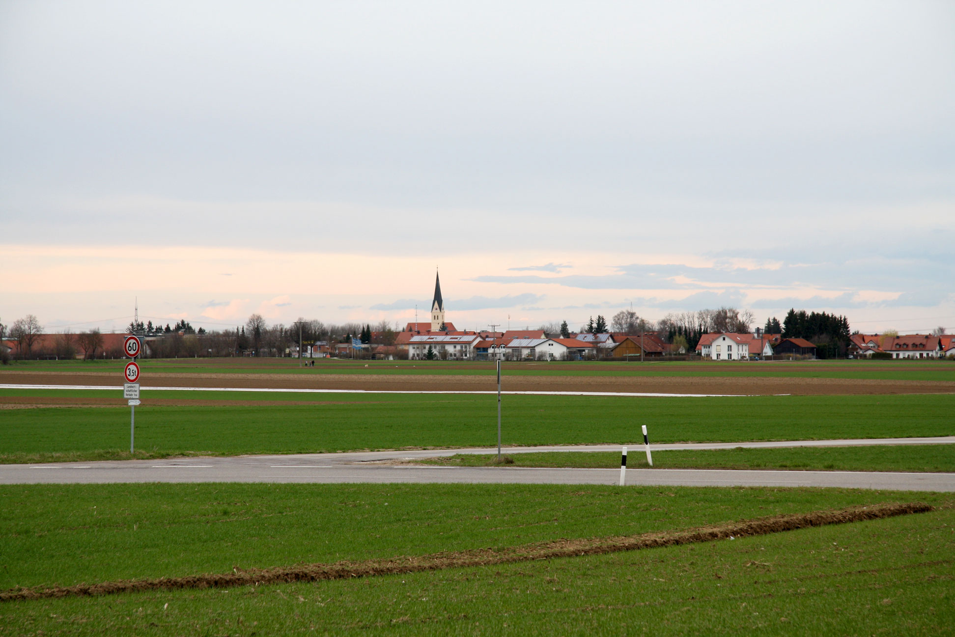 Oberding, seen from Aufkirchen power plant